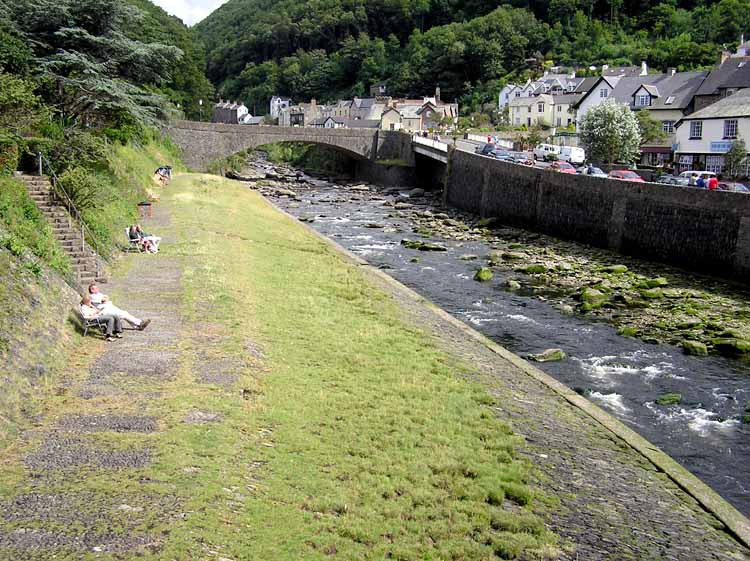 The meeting of the Lynmouth rivers. The wide river is the East Lyn, the river coming in under the bridge with the two white stripes is the West Lyn. Taken by Adrian Pingstone in July 2004 and released to the public domain.